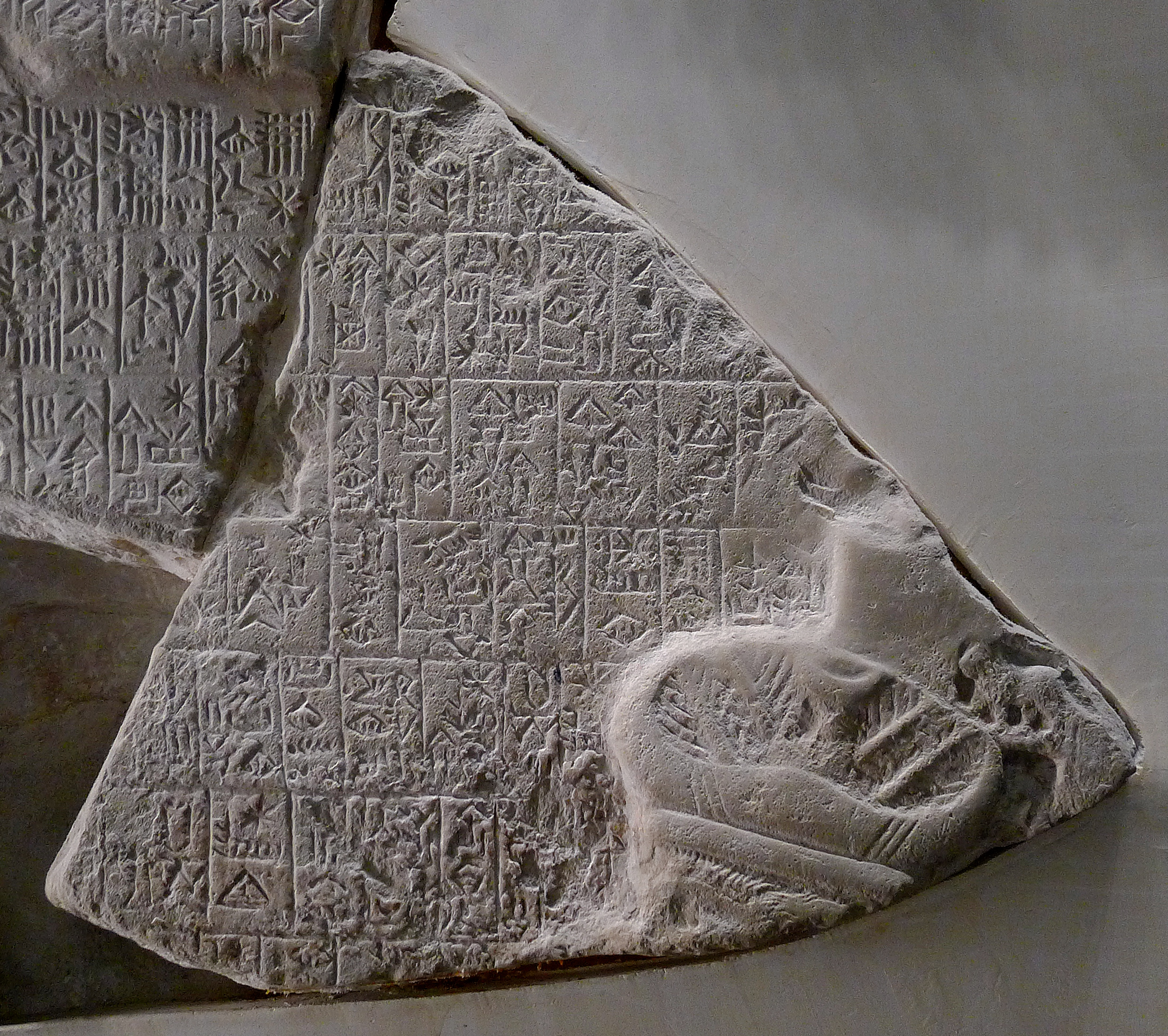 One fragment of the victory stele of the king Eannatum of Lagash over Umma, called « Stele of Vultures ». Limestone, circa 2450 BC, Sumerian archaic dynasties. Found in 1881 in Girsu (now Tello, Iraq), Mesopotamia, by Édouard de Sarzec.